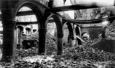 "Interior of the Famous Library at Louvain. (Photo by N.J. Boon, Holland.)"